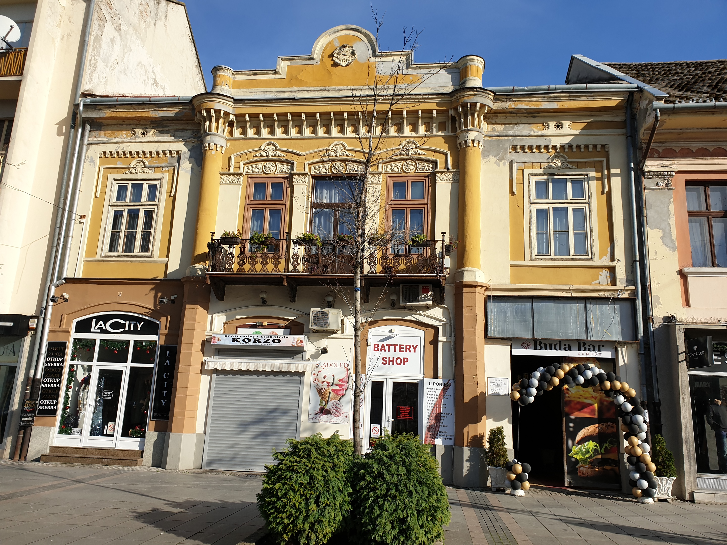 Kuća dr Koste Popovića